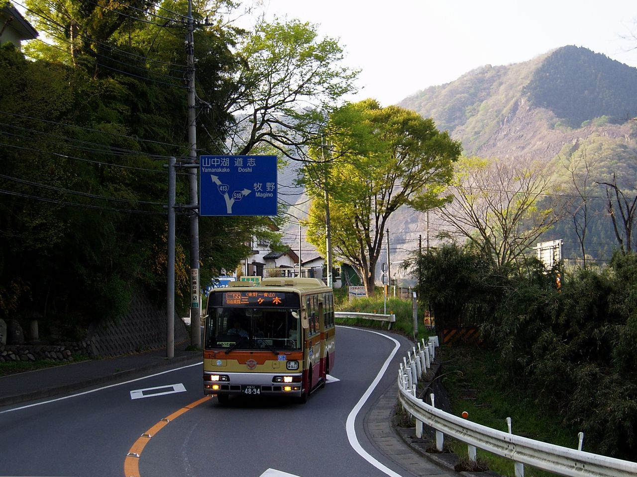 Tsukui Kanako Bus T-4 Mitsubishi U-MK218J at Makime in Sagamihara City